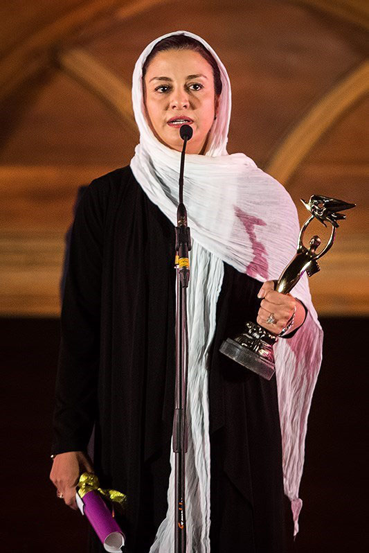 17th Iranian cinema celebration was held in Masoudieh Mansion by Iran's House of Cinema.